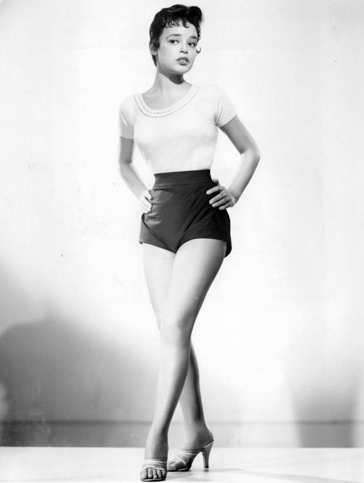 Photo of singer Jill Corey from an appearance on one of the early Johnny Carson shows.